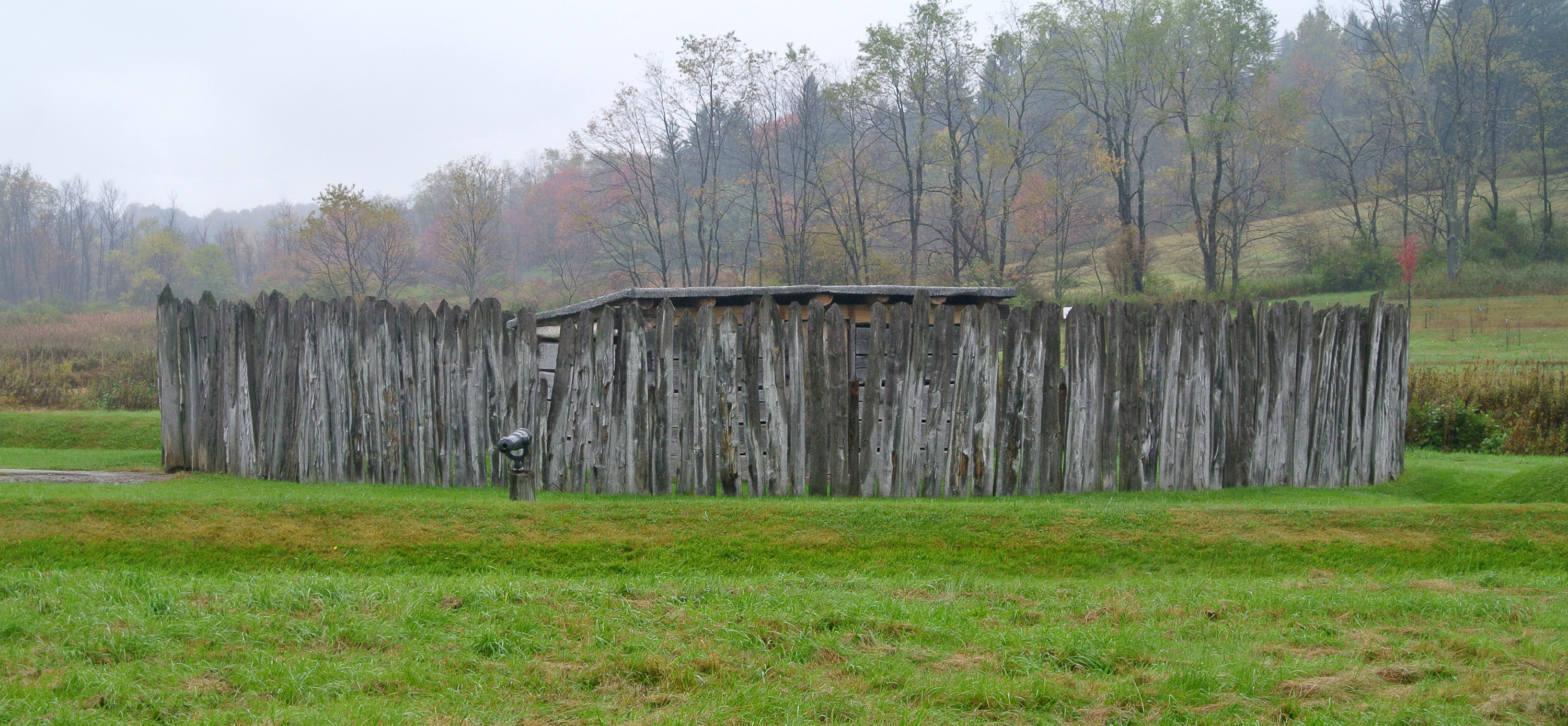 Reconstructed Fort Necessity, southern Pennsylvania.